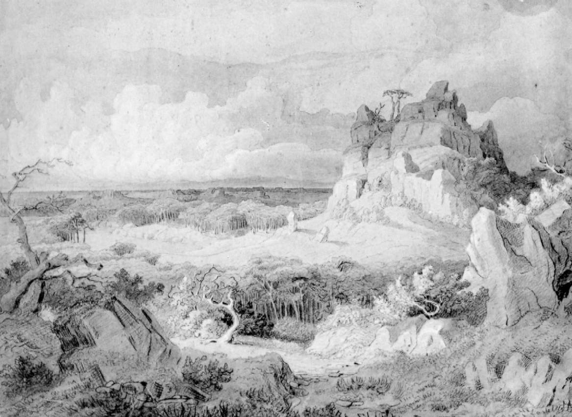 Heroische Landschaft (Heroic Landscape), black crayon and brush on paper, 60 x 80 cm, unsigned, 1841 in Munich